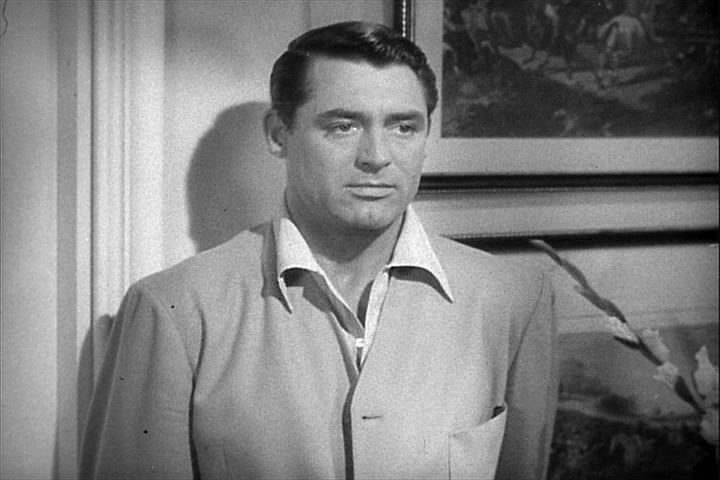 Cary Grant in The Philadelphia Story trailer